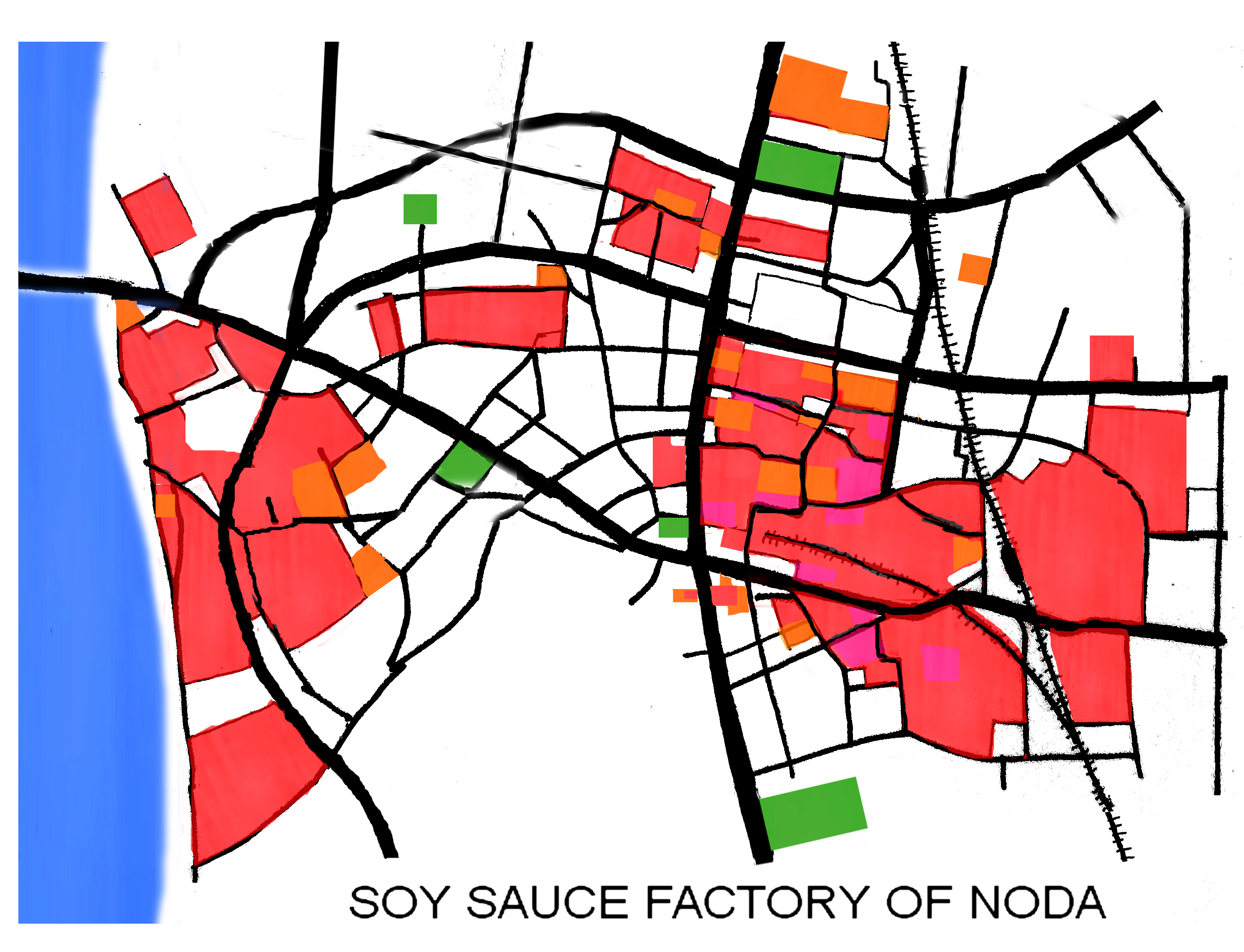 Soy sauce factory of Noda. 野田の醤油醸造産業遺産群関連の分布地図